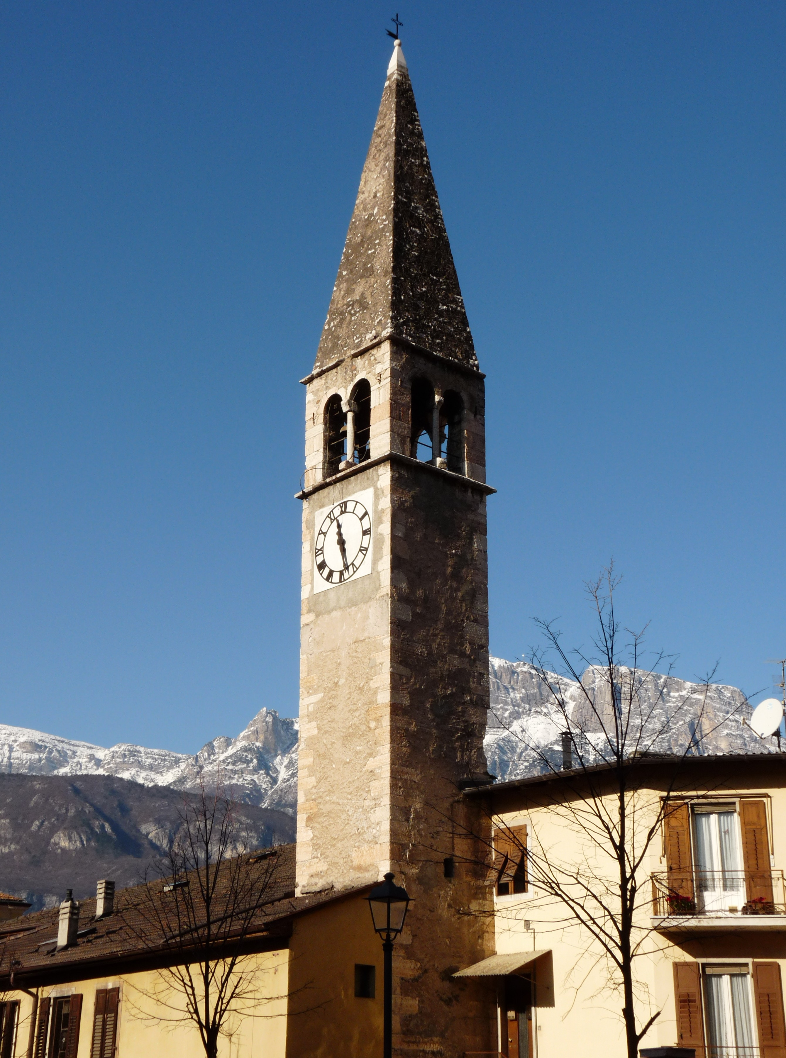 Trento (Italy): the church tower (XV century) of the old church of Gardolo from southeast.